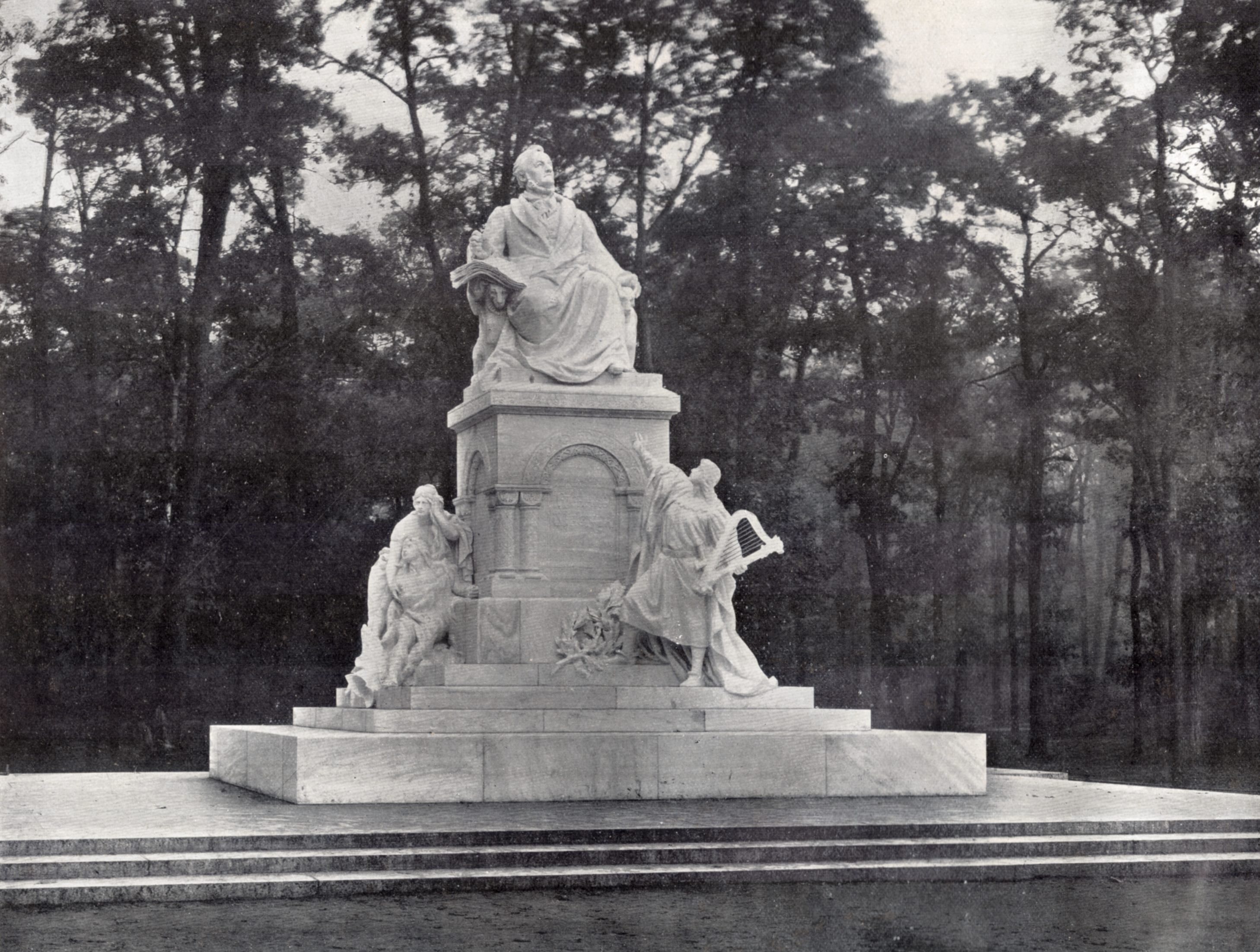 Berlin, memorial to the composer Richard Wagner around 1904